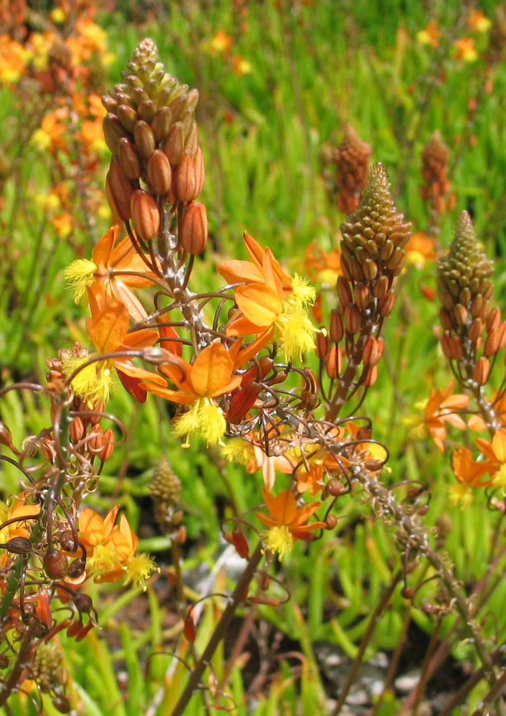 Bulbine caulescens flower